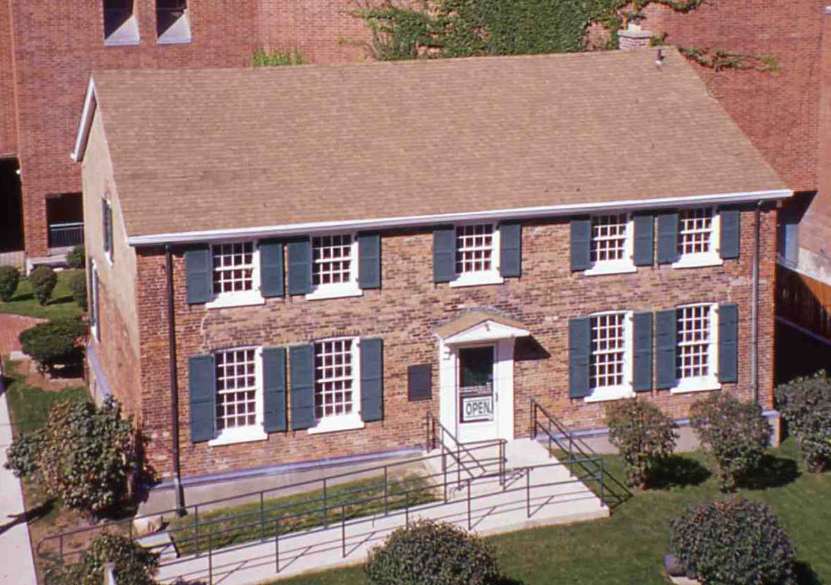 A picture of the Francois Baby House taken by Windsor's Community Museum Assistant Currator Madelyn De Valle. The picture was taken sometime in 2005.